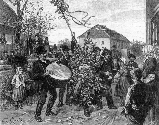 We also had Tour of Zeleni Jurij (green George) festival tradition until WWII, this tradition survived to some degree in Bela Krajna